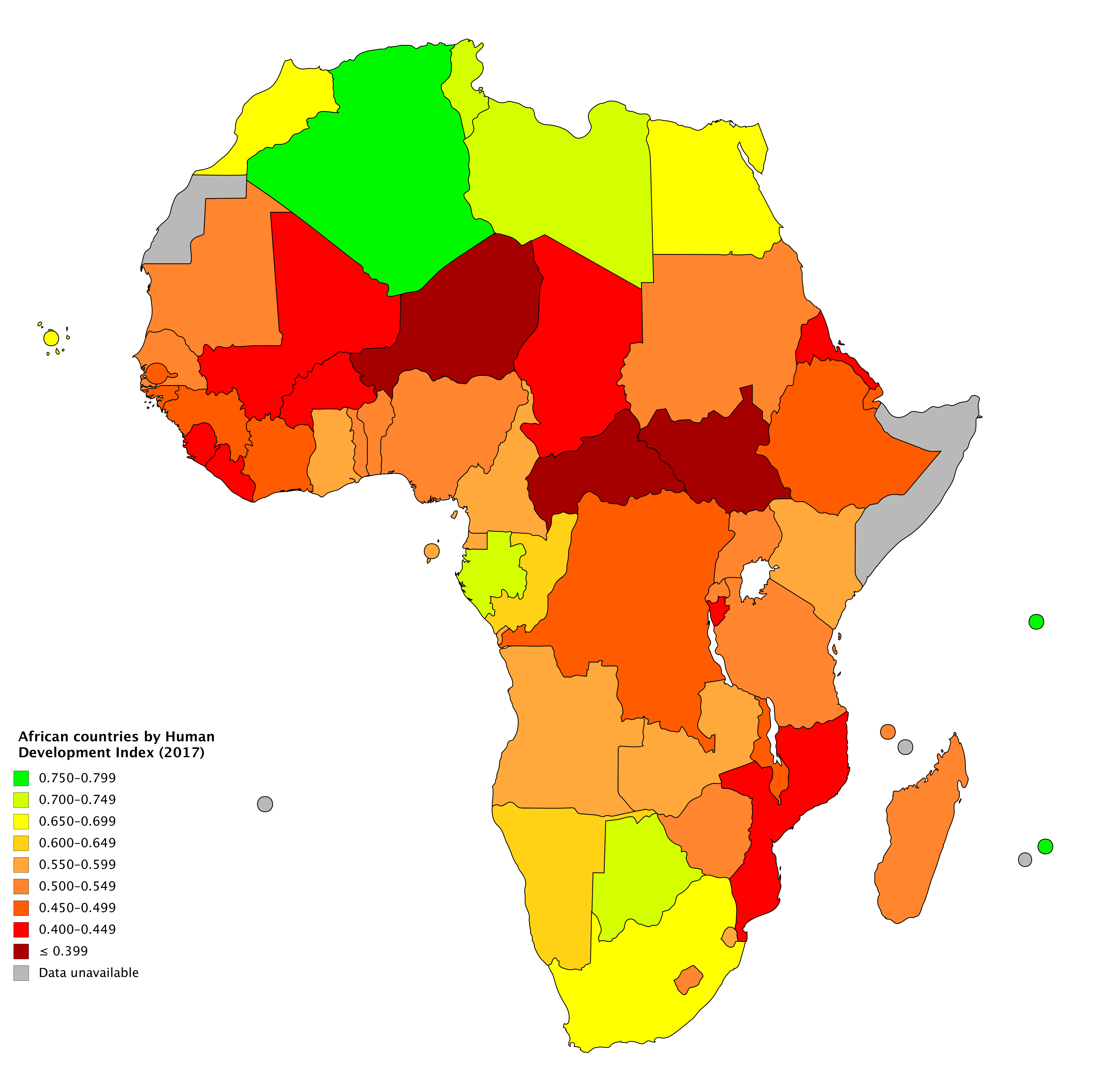 A choropleth map of Africa showing the Human Development Index (HDI) of its countries in 2017, based on data from the Human Development Report of the United Nations Development Programme released on 14 September 2018.